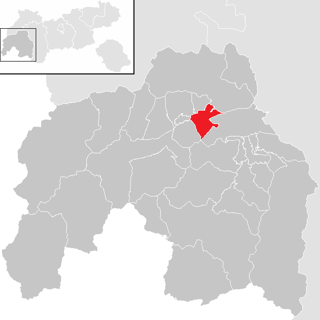 District Landeck